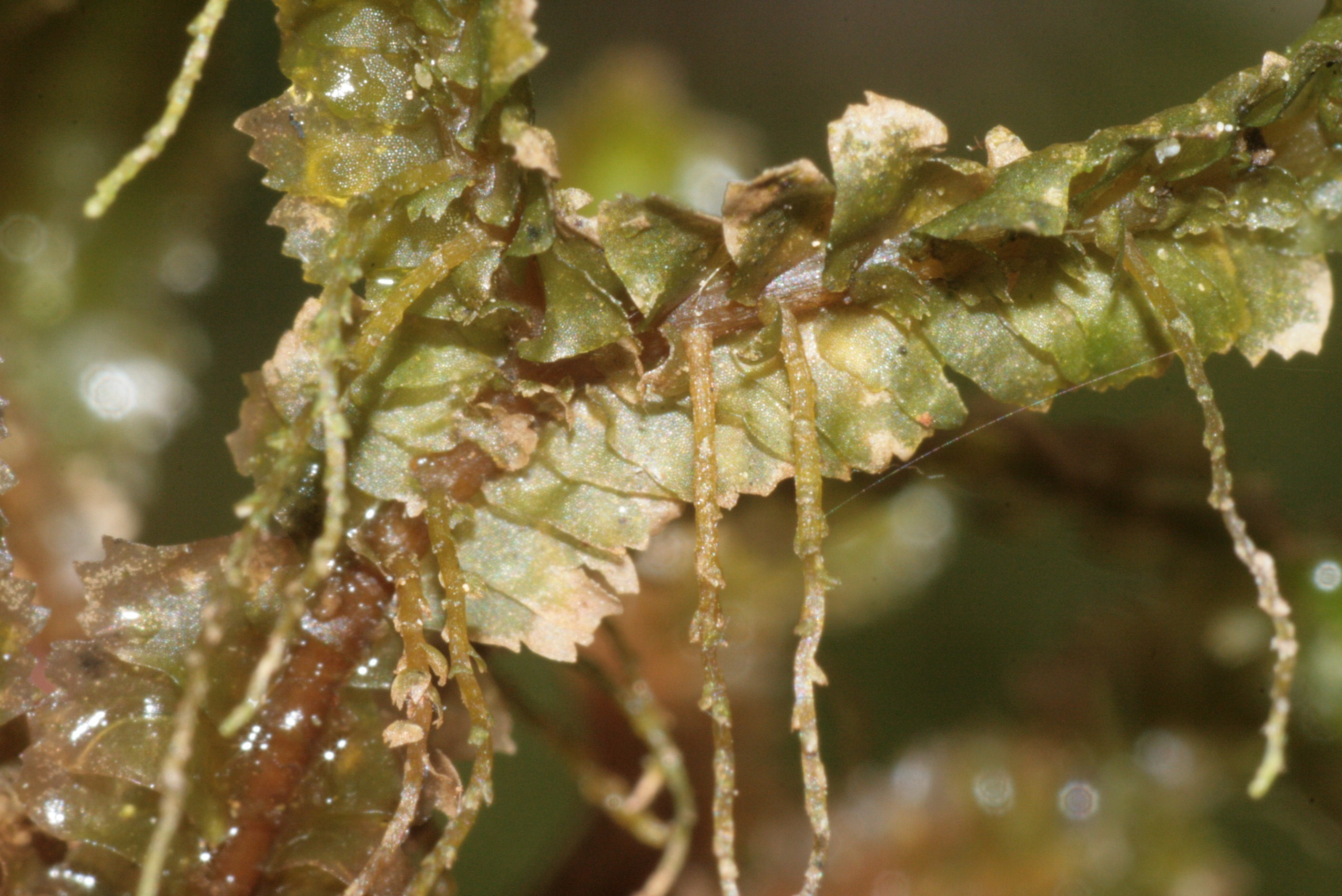 Bazzania trilobata